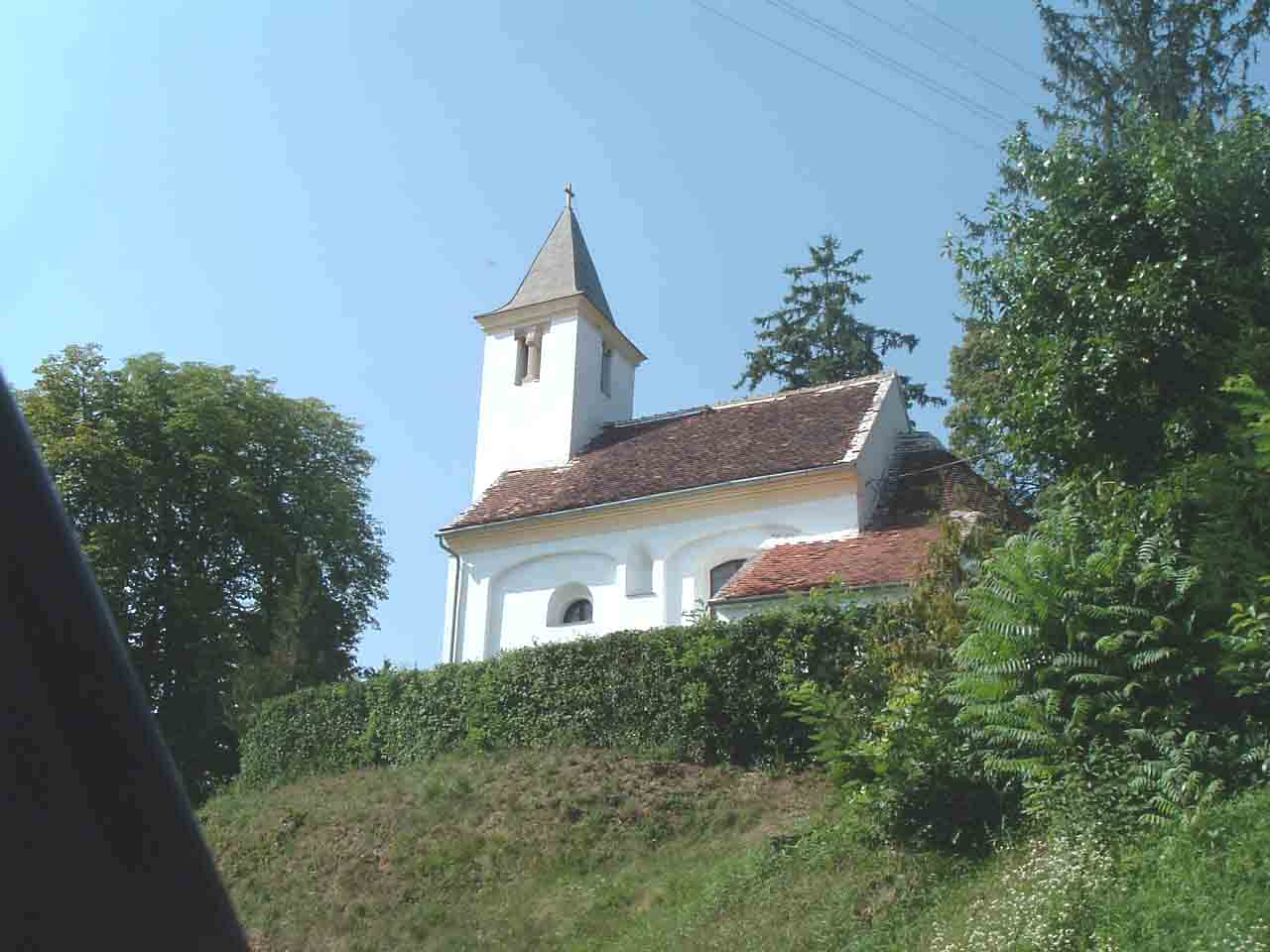 The church of Hegyhátszentjakab, Hungary.